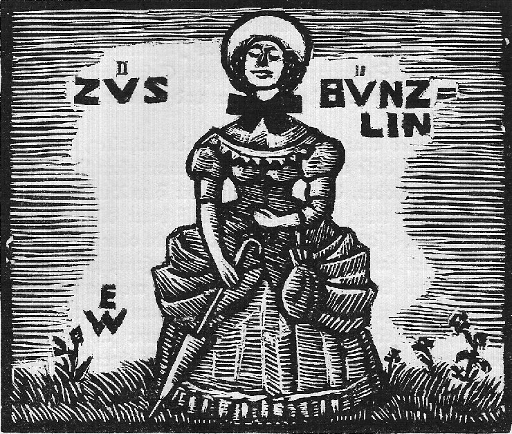 Miss Züs Bünzlin, spinster